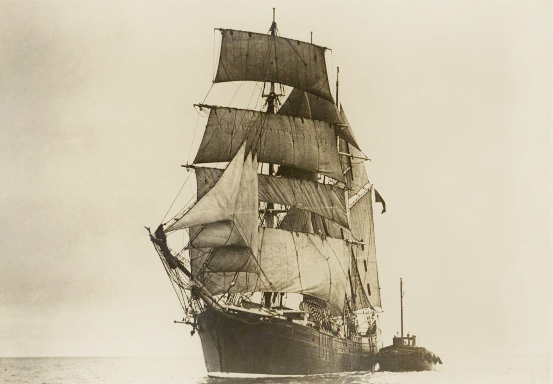 The Cap Pilar ship